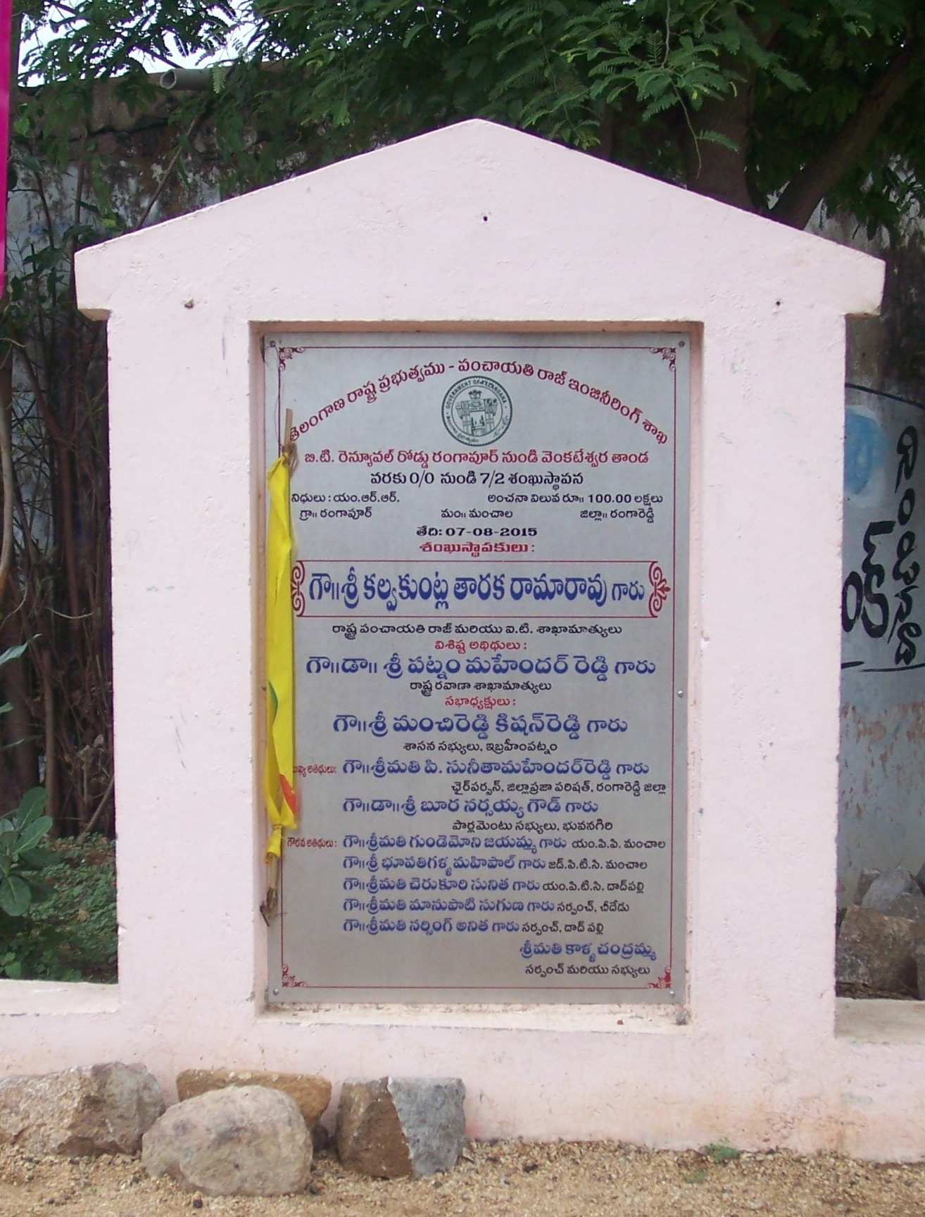 Rangapur village